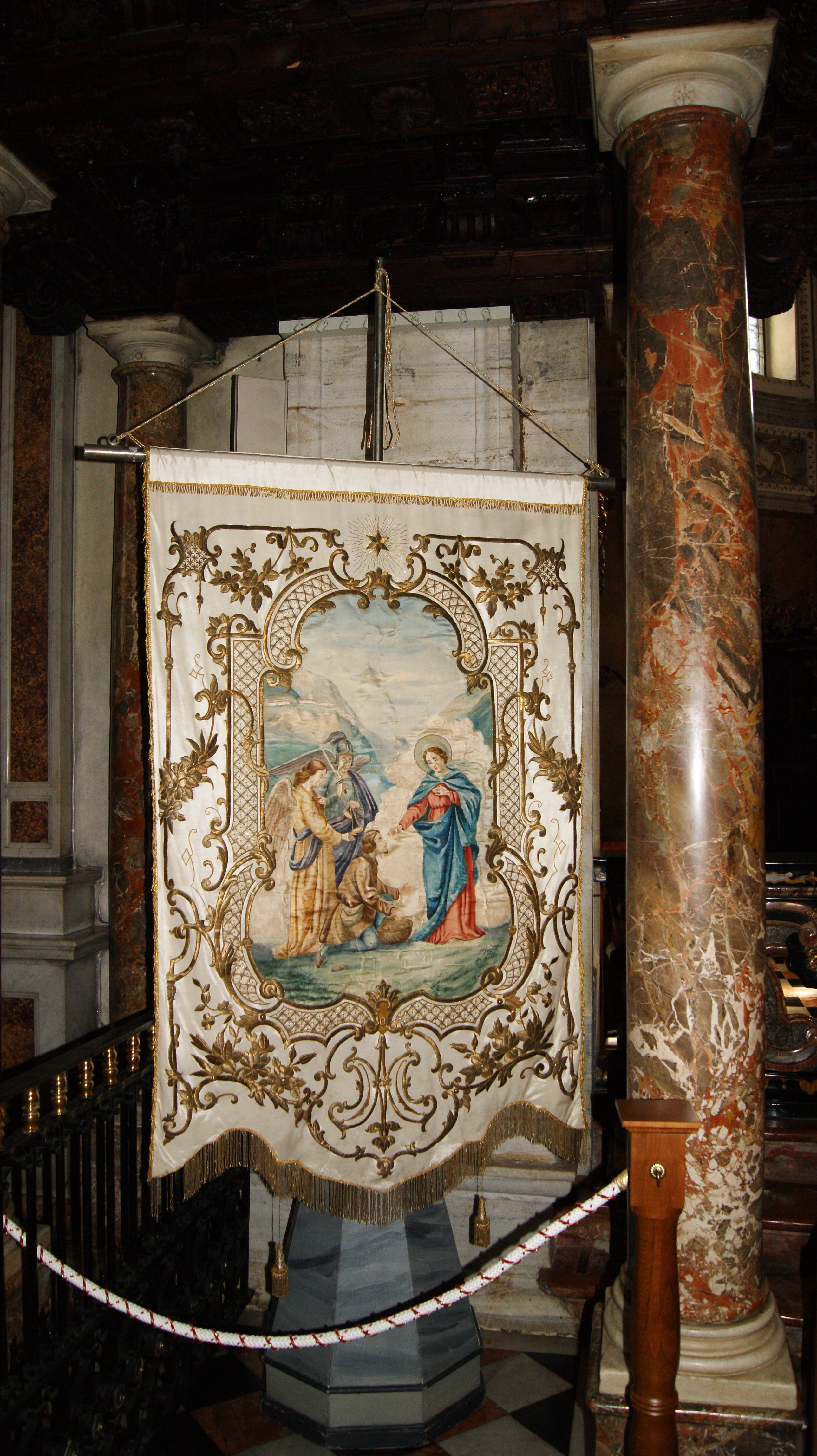 Sanctuary and Basilica Madonna di Tirano in Tirano, province Sondrio, region Lombardy in Italy.